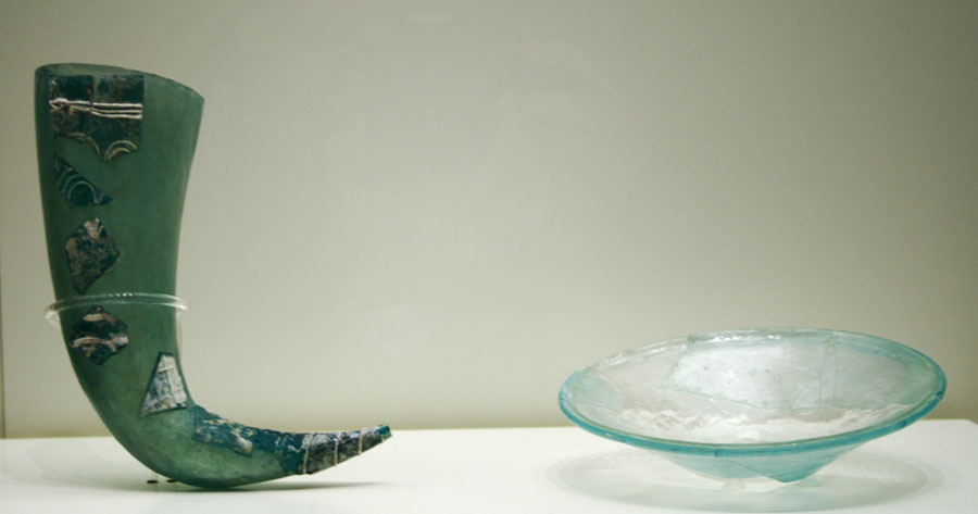 Glassware objects found at the level of Byzantine inhabitation (6th century AD) of the excavations of the Roman theatre of Cartagena. Museum of the Roman Theatre of Cartagena.